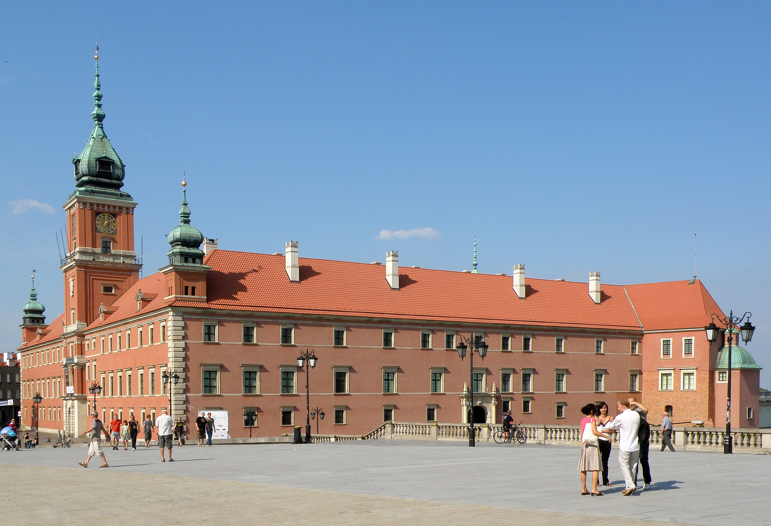 Poland, Warsaw Royal CastleEsperanto: Reĝa kastelo en Varsovio, Pollando